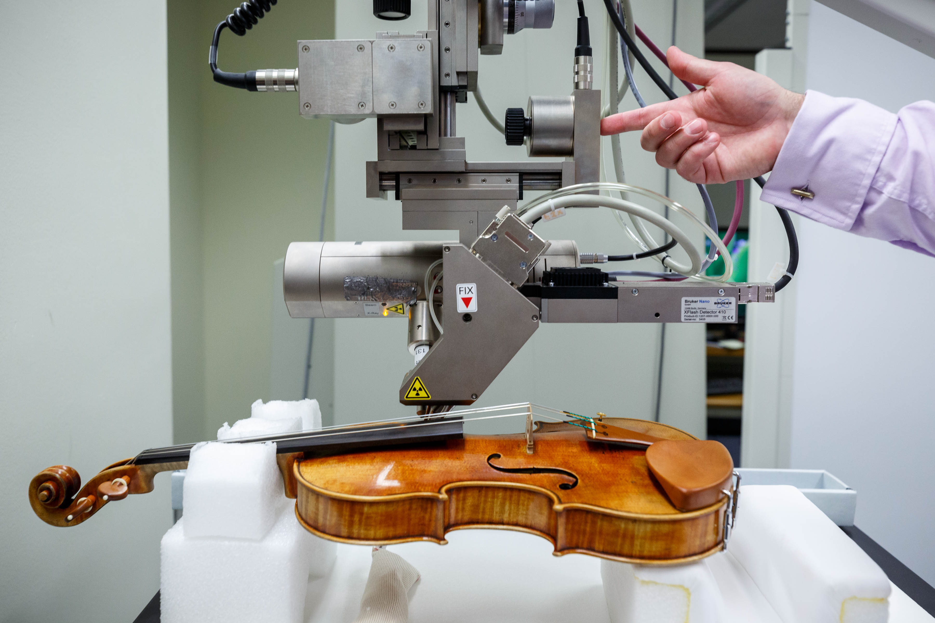 The Library's Oberlin Betts violin, a modern replica of the Library's Stradivarius Betts violin, undergoes x-ray fluorescence spectroscopy in the Preservation Research and Testing Division to test effects of use, October 8, 2019. Photo by Shawn Miller/Library of Congress. Note: Privacy and publicity rights for individuals depicted may apply.